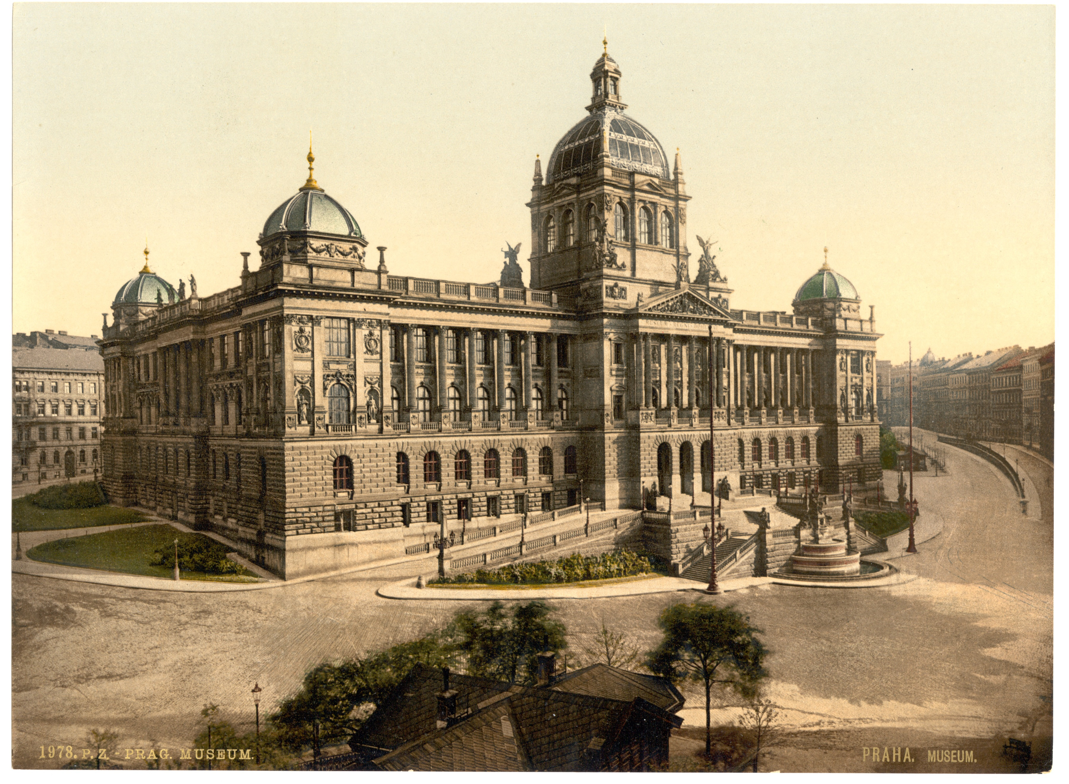 Print no. "1978".; Forms part of: Views of the Austro-Hungarian Empire in the Photochrom print collection.; Title from the Detroit Publishing Co., Catalogue J-foreign section, Detroit, Mich. : Detroit Publishing Company, 1905.